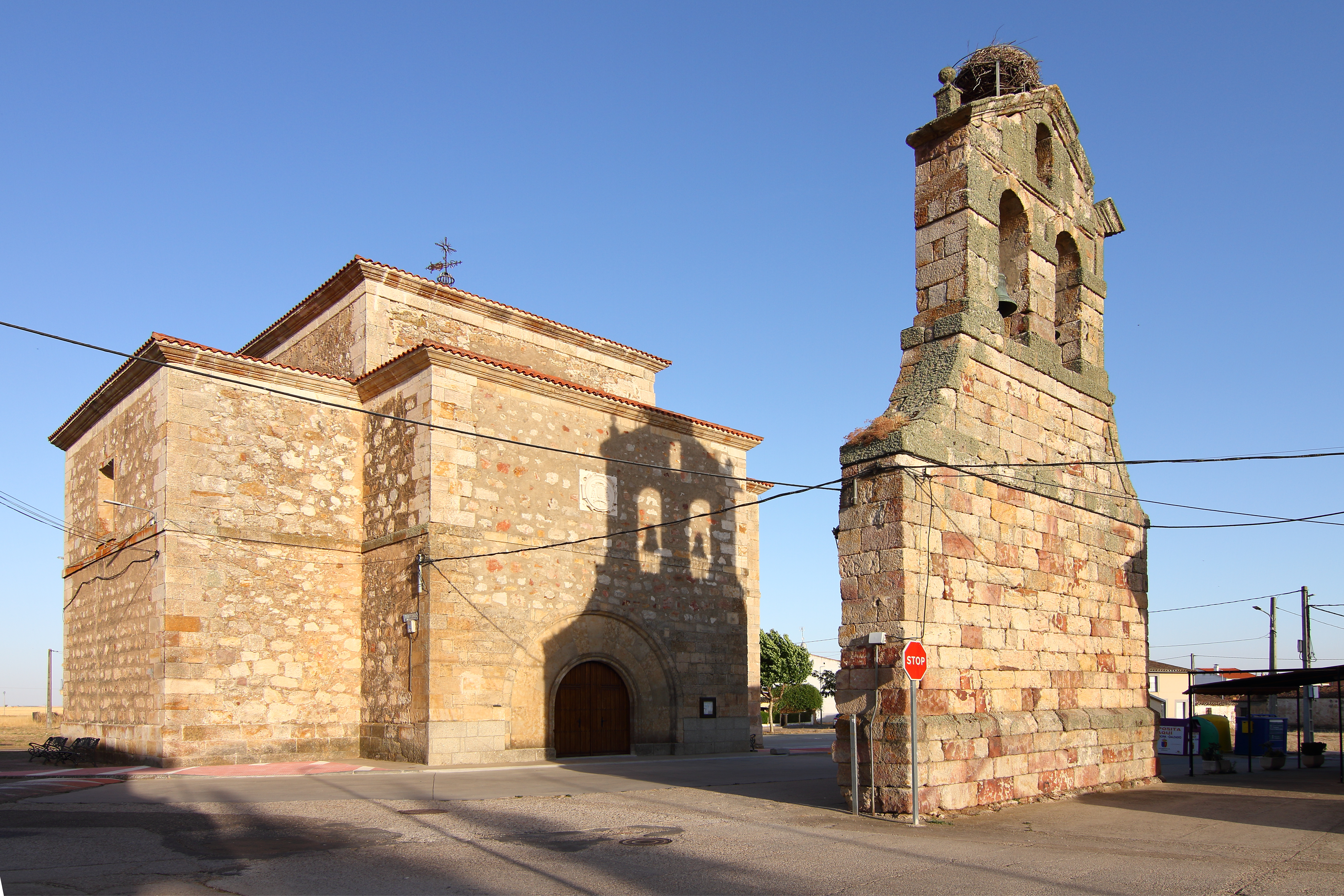 Bell gable and Church of Saint John the Baptist, Pelabravo (Salamanca).